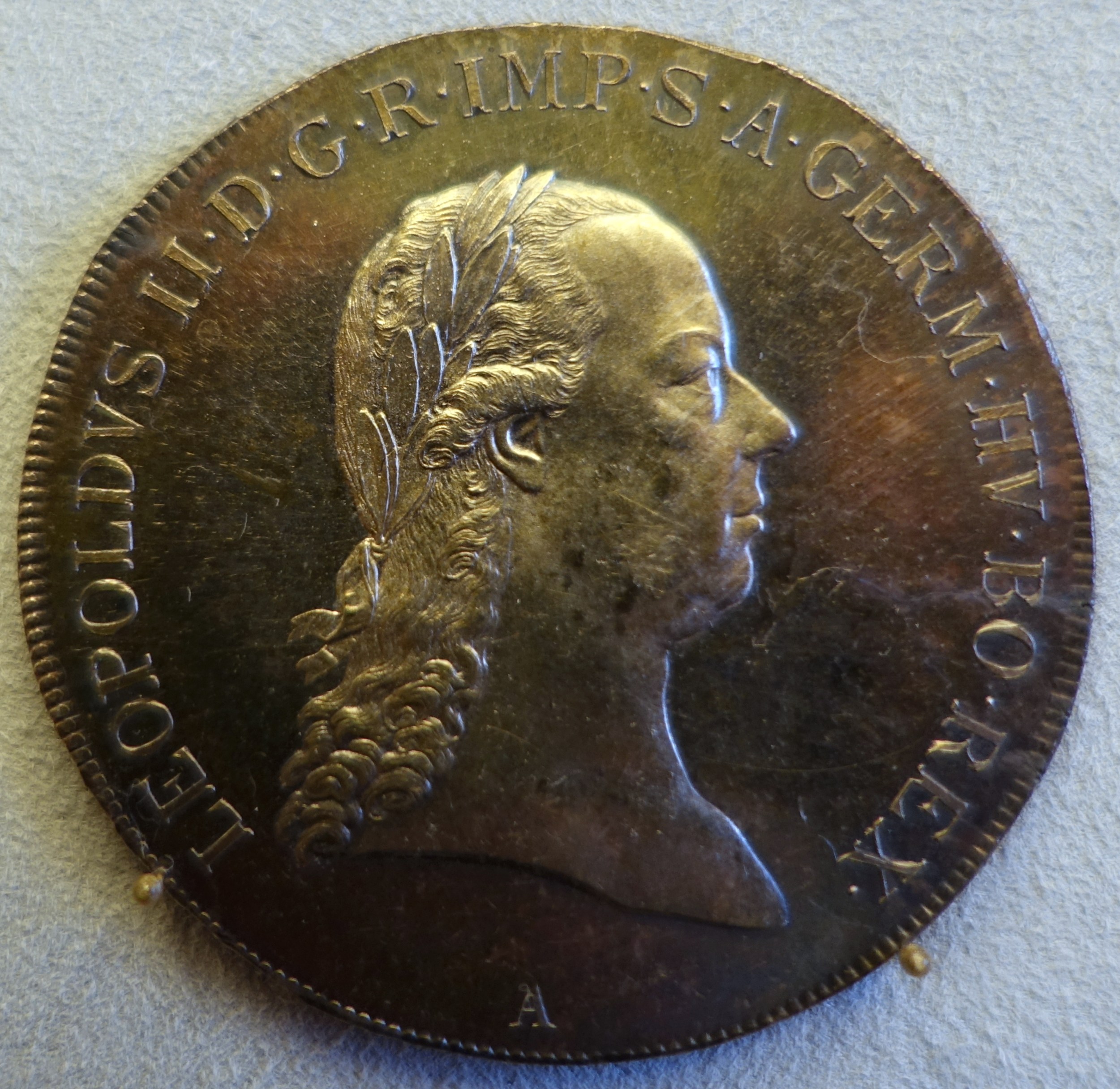 Exhibit in the Bode-Museum, Berlin, Germany. This work is in the public domain because the artist died more than 100 years ago.